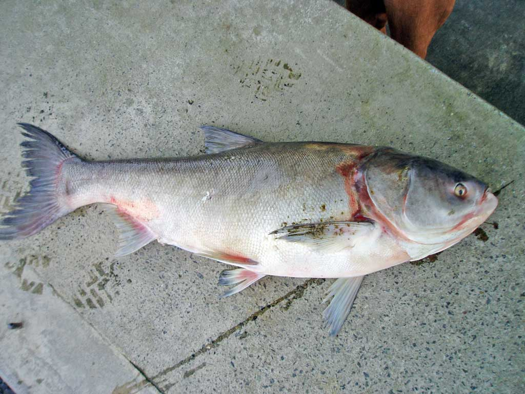 Photo of Silver carp(adult/female).